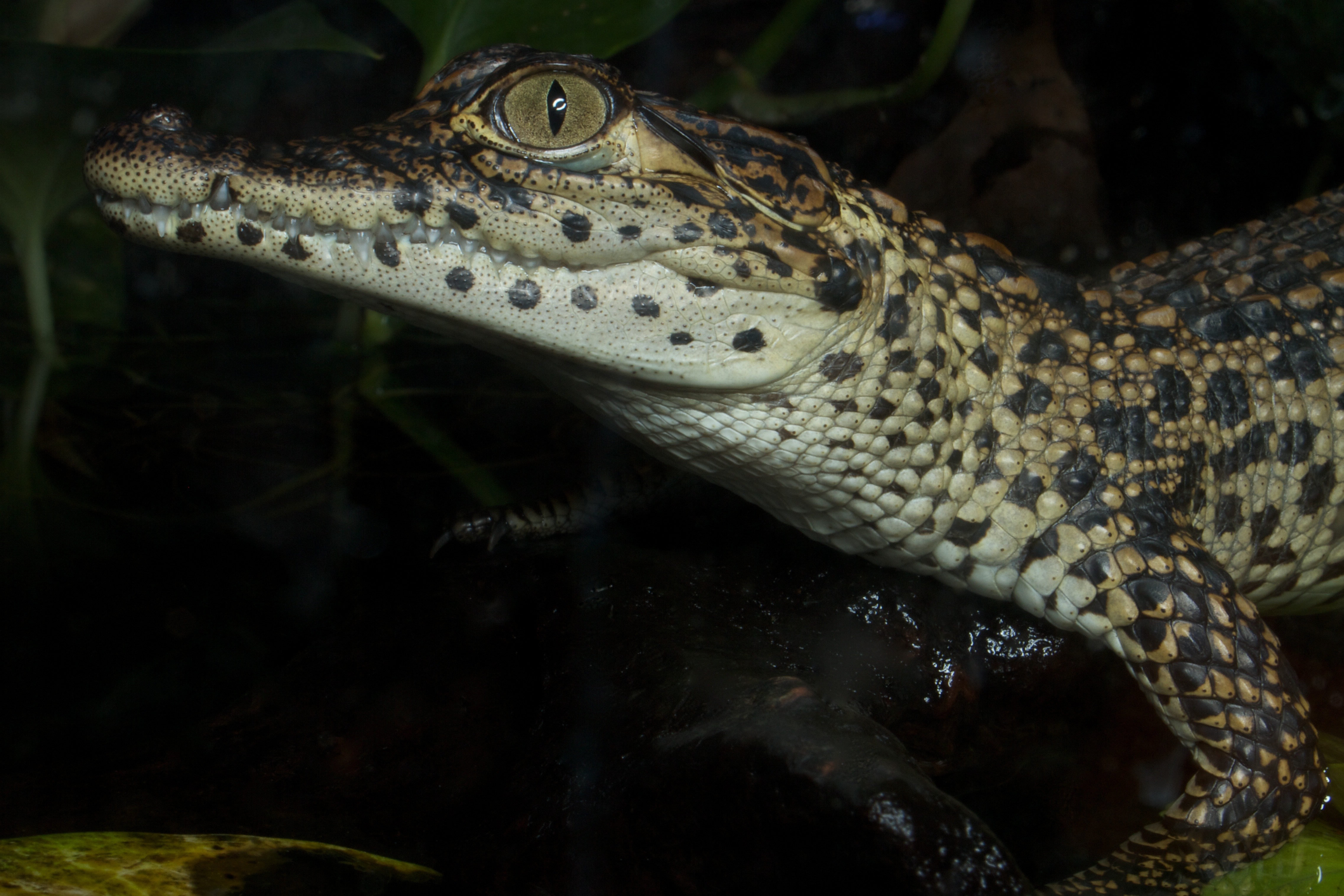 Baby Cuban Crocodile